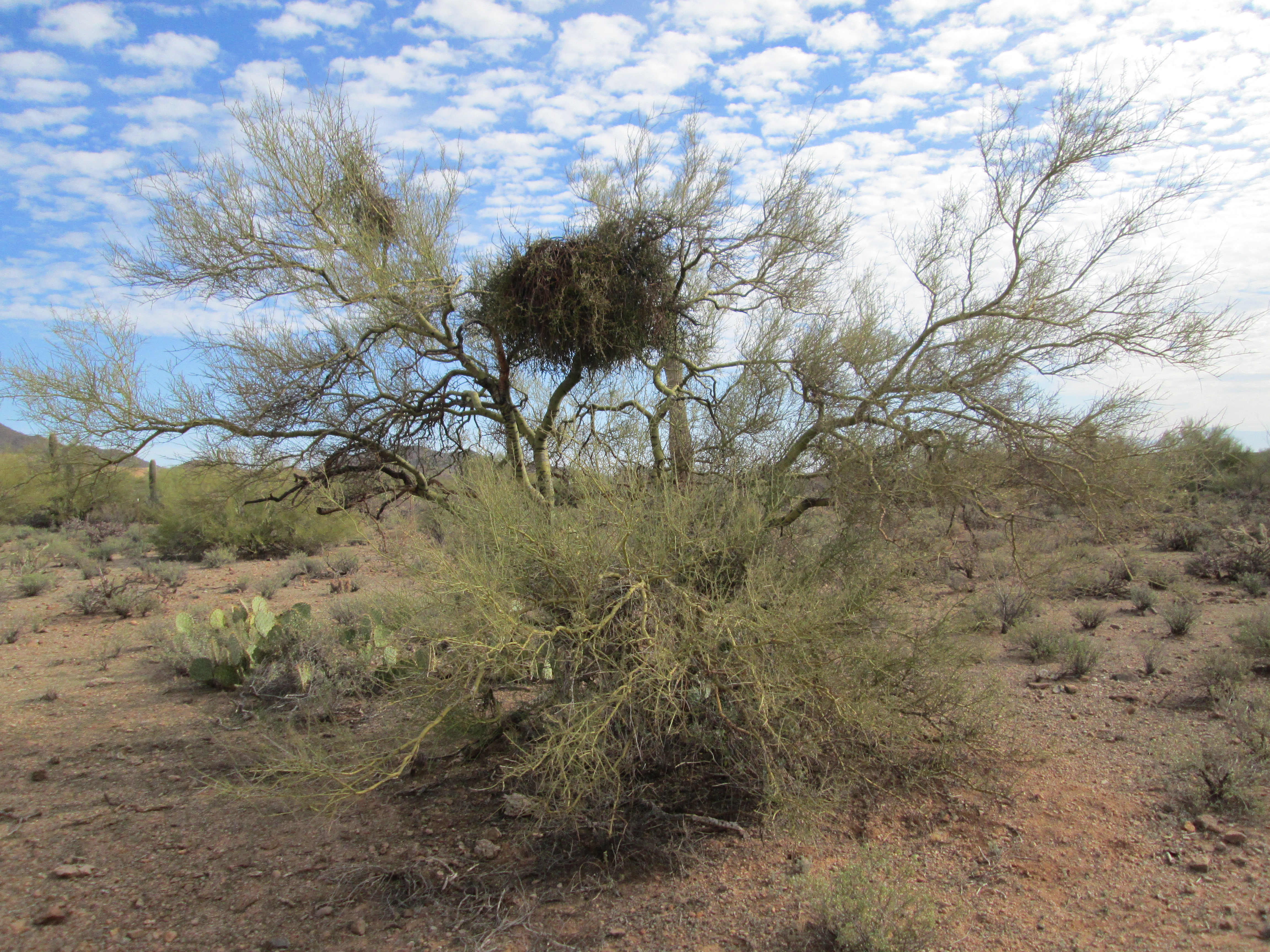 A palo verde tree with desert mistletoe near Silver Bell, Arizona. February 22, 2014